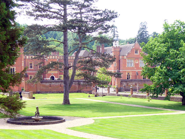 Wotton House Ancient manor house dating back some 700 years. It was once home to the diarist, John Evelyn. Today it is an exclusive country hotel and events venue.